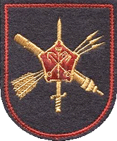 Shoulder sleeve insignia of the 5th Anti-Aircraft Rocket Brigade of the Russian Ground Forces